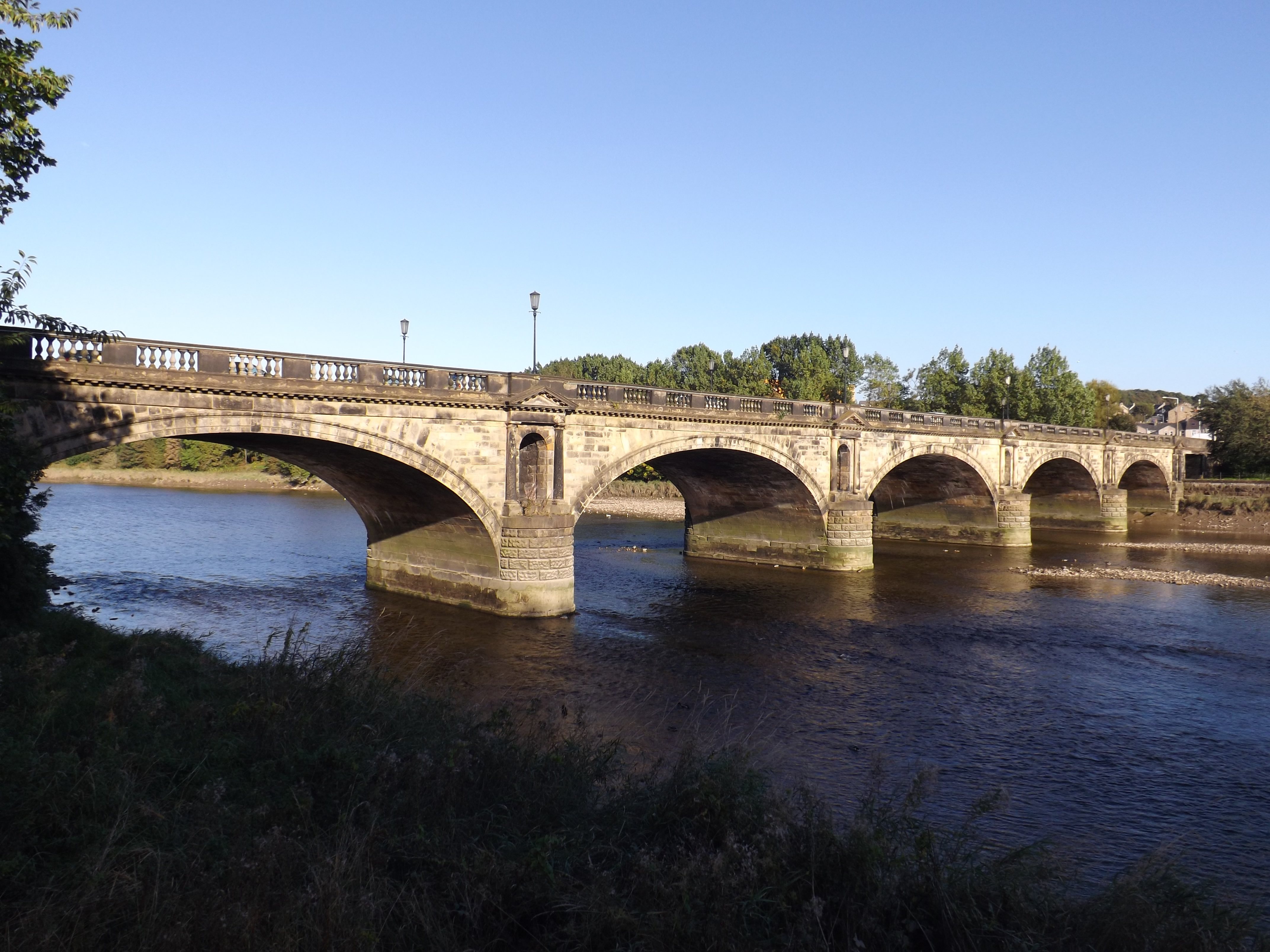 Skerton Bridge, Lancaster, England - from the North end of the bridge showing all five arches